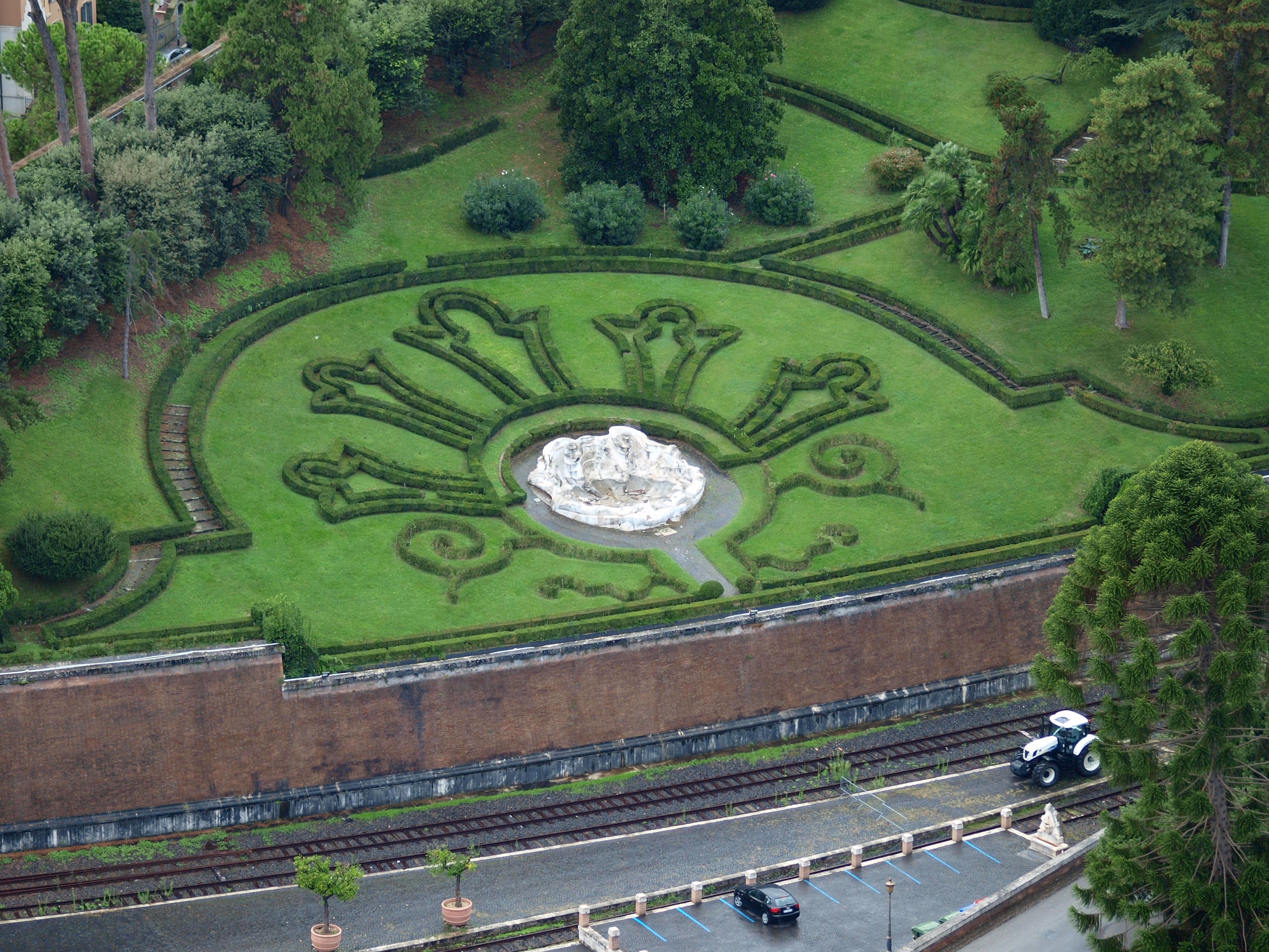 Gardens in the Vatican City